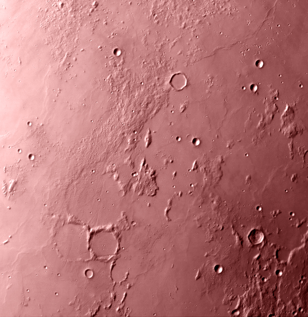 Sea of Clouds, on the Moon. Infrared image in L band centred on 3.75 micrometres. Taken with the SIRCA camera by M. Gålfalk, G. Olofsson, and H.-G. Florén. Nordic Optical Telescope, Stockholm Observatory. More images can be found here.